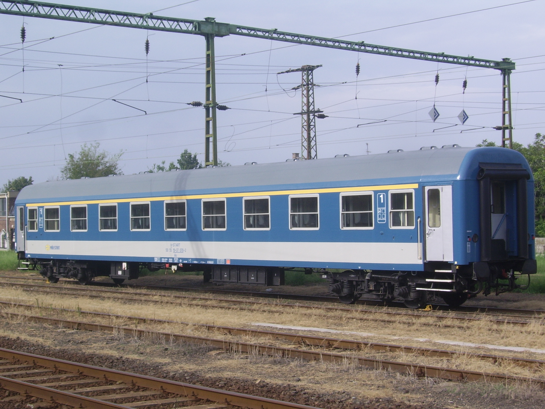 Type Ao railway carriage in Kecskemét, Hungary